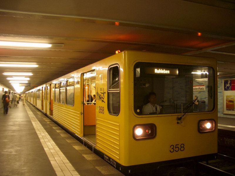 Berlin Subway, Train Type GI, on line 2, Ernst-Reuter-Platz station